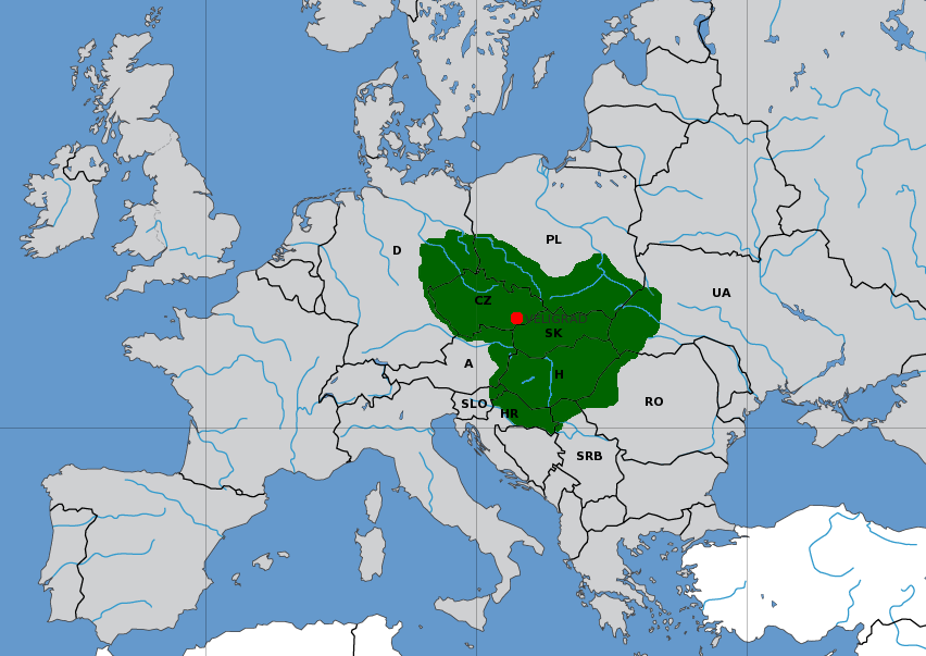 Great Moravia at its greatest extent during the reign of Svatopluk I with marked probable approximate location of its capital city (red dot)